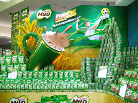 Milo Display at Hua Ho Department Store Manggis, Brunei Darussalam. An example of visual merchandising.